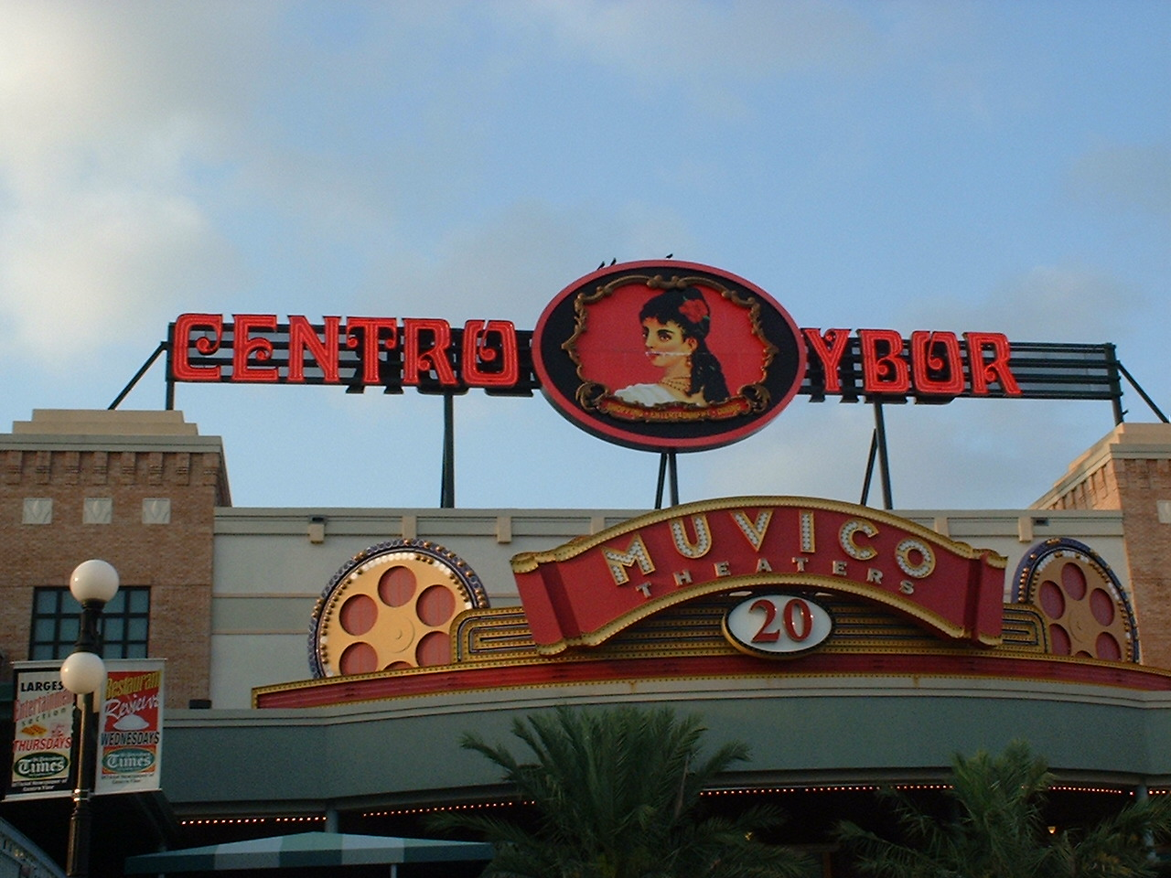 Centro Ybor in Tampa.